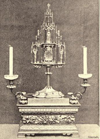 1897 History of St Margaret's Convent Edinburgh and auto biog of Ann Agnes Xavier Trail. Now part of Gillis Centre